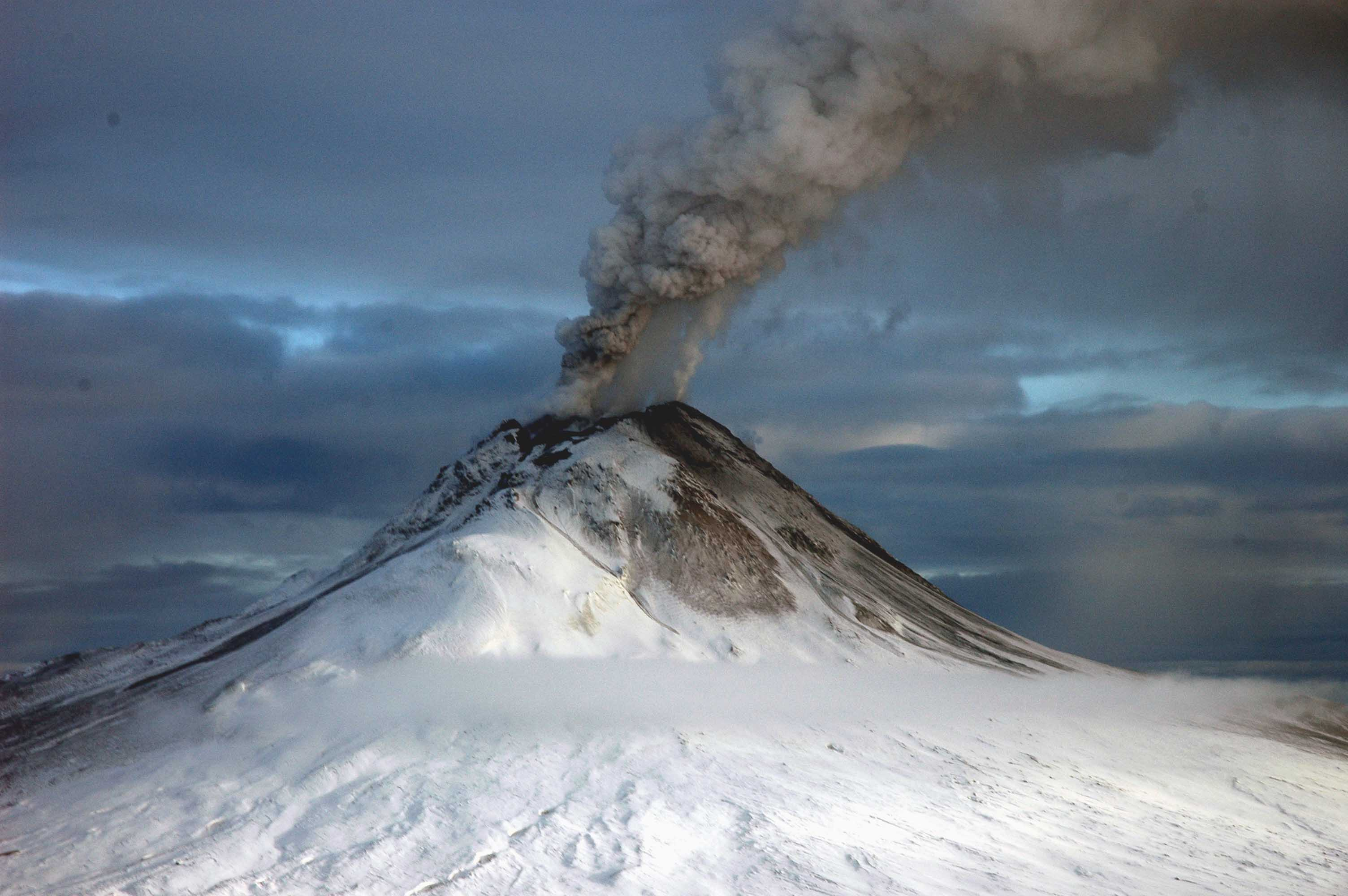 Augustine Volcano viewed from the west, Jan. 12, 2006.